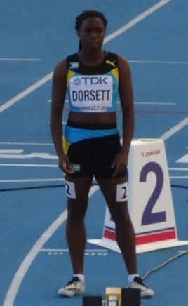 2016 IAAF World U20 Championships in Bydgoszcz, 400m women qualifications